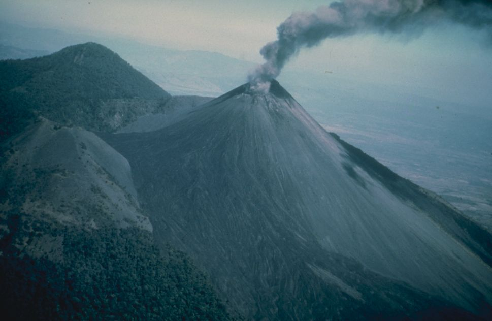 Ashy eruption at Pacaya, shortly after a very large earthquake affected the area in 1976. Photo credit: USGS. .